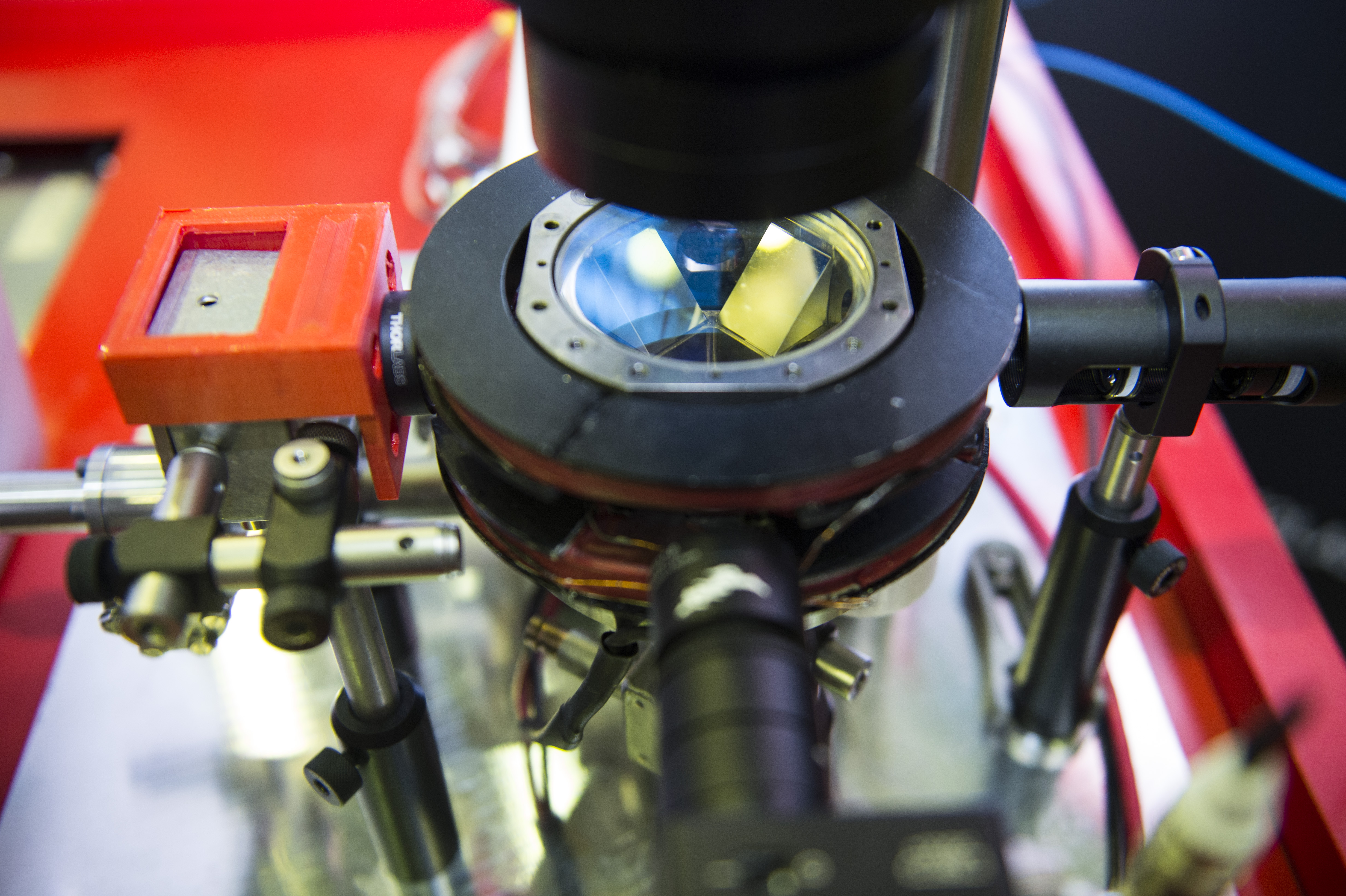 A commercially available ‘atom interferometer’ – exploiting clouds of ultra-cold atoms to make extremely precise measurements of variations in local gravity – on show during ESA’s inaugural Quantum Technology workshop. “We’ve been looking at applying the latest quantum technology to space,” explains ESA’s Bruno Leone. “Quantum physics is still regarded as abstract, but products based on its effects are commonplace today, such as microprocessors, solid-state imaging devices and lasers. “What we’re interested in harnessing more advanced, subtle, aspects of quantum mechanics, including superposition and entanglement, made feasible by recent advances in experimental techniques and equipment.” This desk-sized atom interferometer, produced by M Squared in the UK, is one example. Finely tuned laser beams confine clumps of atoms kept cooled close to absolute zero. Like ripples meeting on a pond, their resulting interference patterns can highlight tiny changes in the surrounding environment. Topics at last week’s event included ultra-accurate quantum-based measuring devices and clocks for space and wider commercialisation of the underlying technologies. Also discussed was ‘quantum teleportation’: in 2012 ESA’s observatory in the Canary Islands helped to set a distance world record by reproducing the characteristics of a light particle across 143 km of open air. Credit: ESA–G. Porter CC BY-SA 3.0 IGO